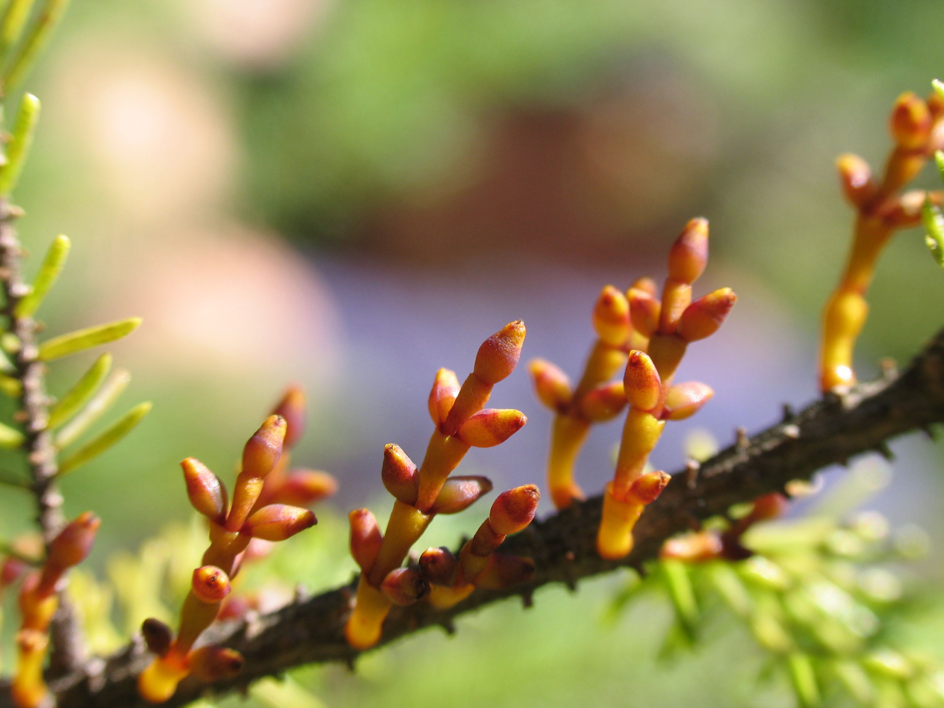 Arceuthobium pusillum Peck - eastern dwarf mistletoe - United States